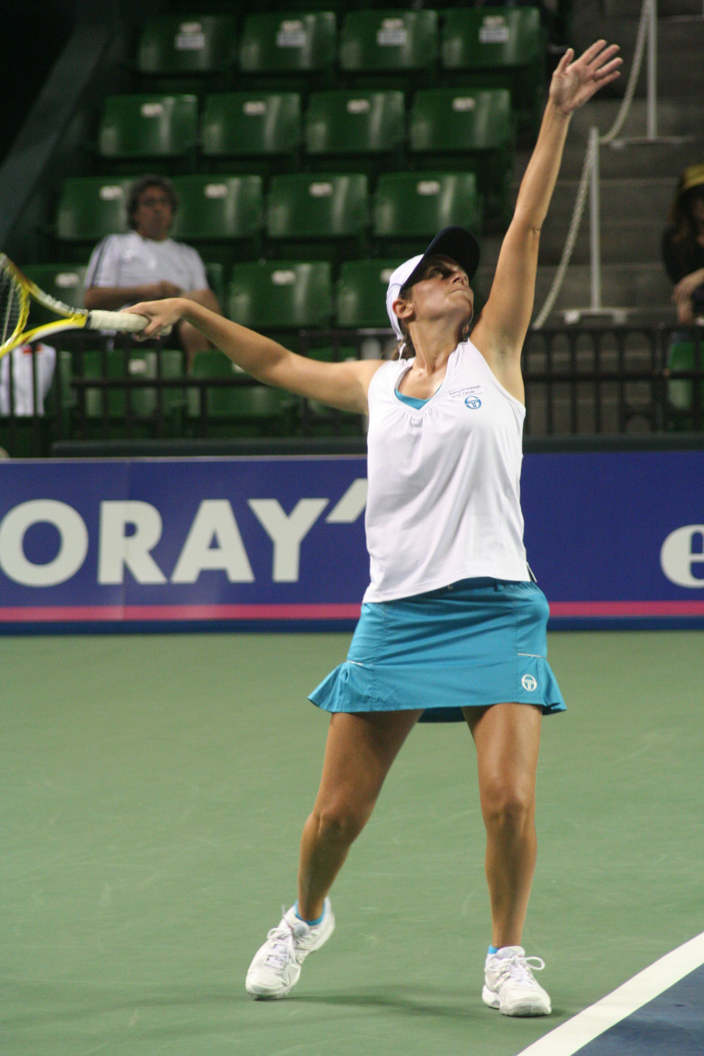 Italian Tennis player Roberta Vinci on the opening day of the Toray Pan Pacific Open 2009 in Tokyo.